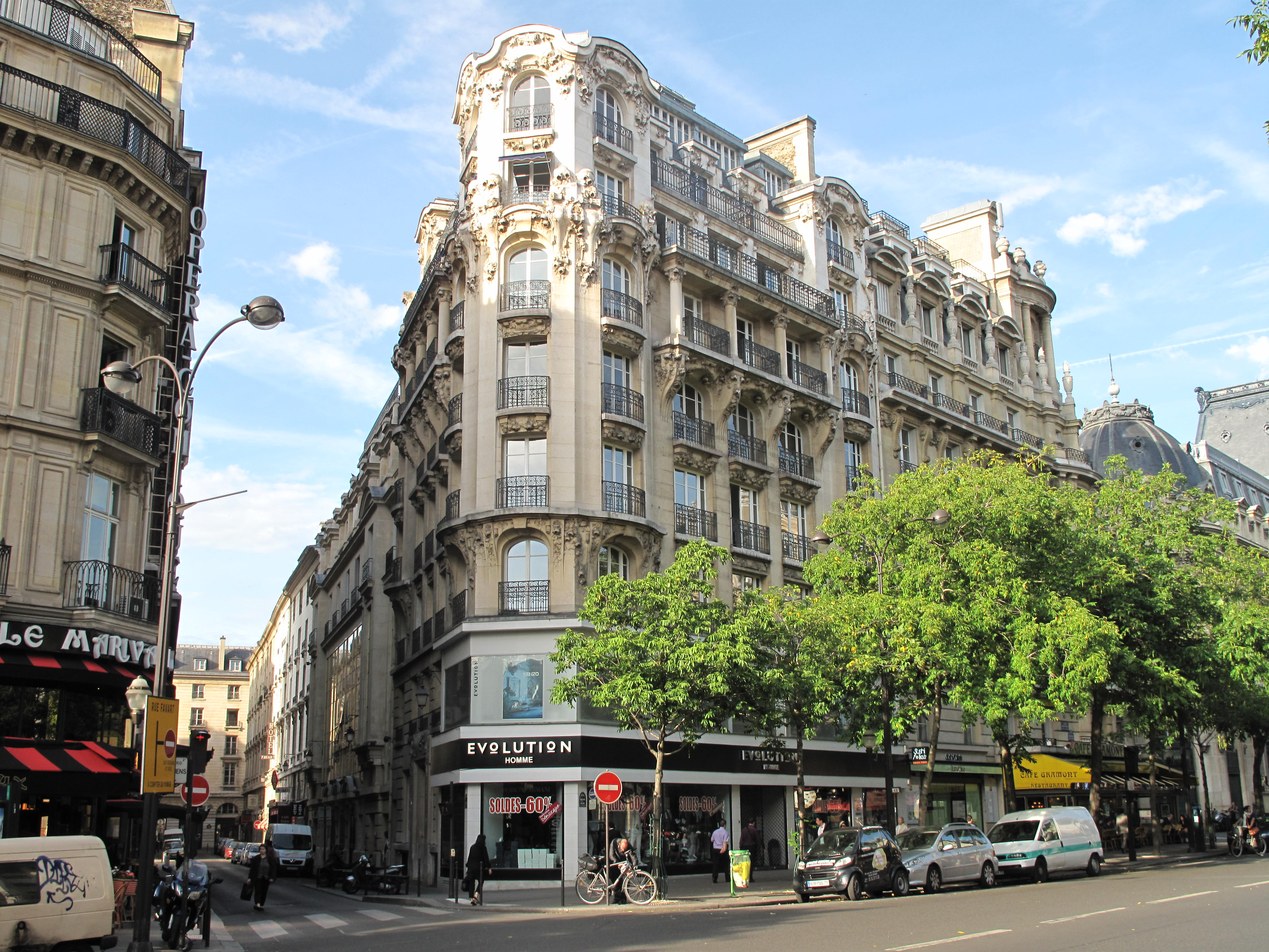 Building in Art Nouveau style built in place of the Café Anglais (1802-1913) at a corner of the boulevard des Italiens and the rue Marivaux, Paris 2nd arr.)